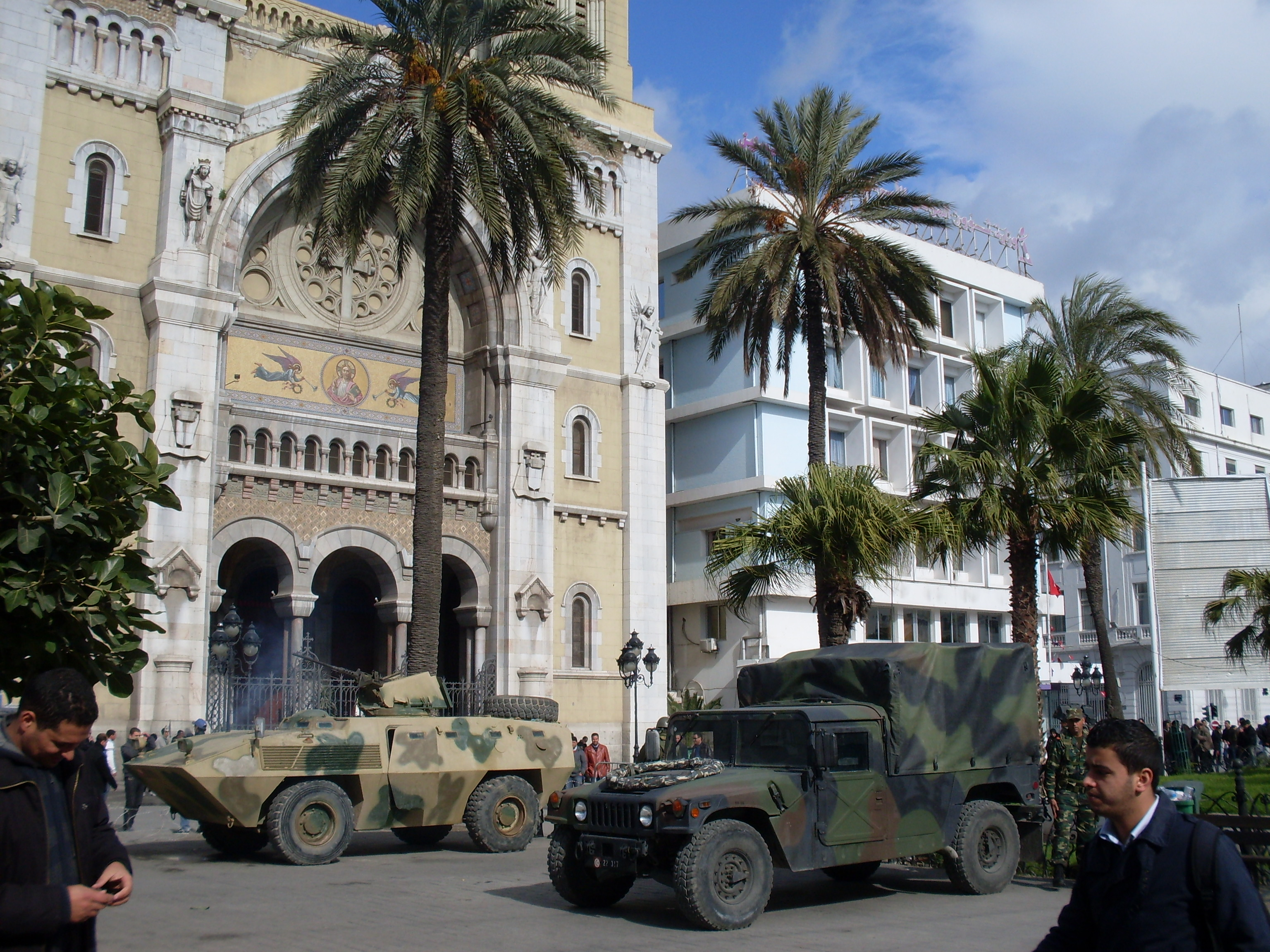 Military vehicules in front of the cathedral of Tunis on the Habib Bourguiba lane during the Jasmine Revolution